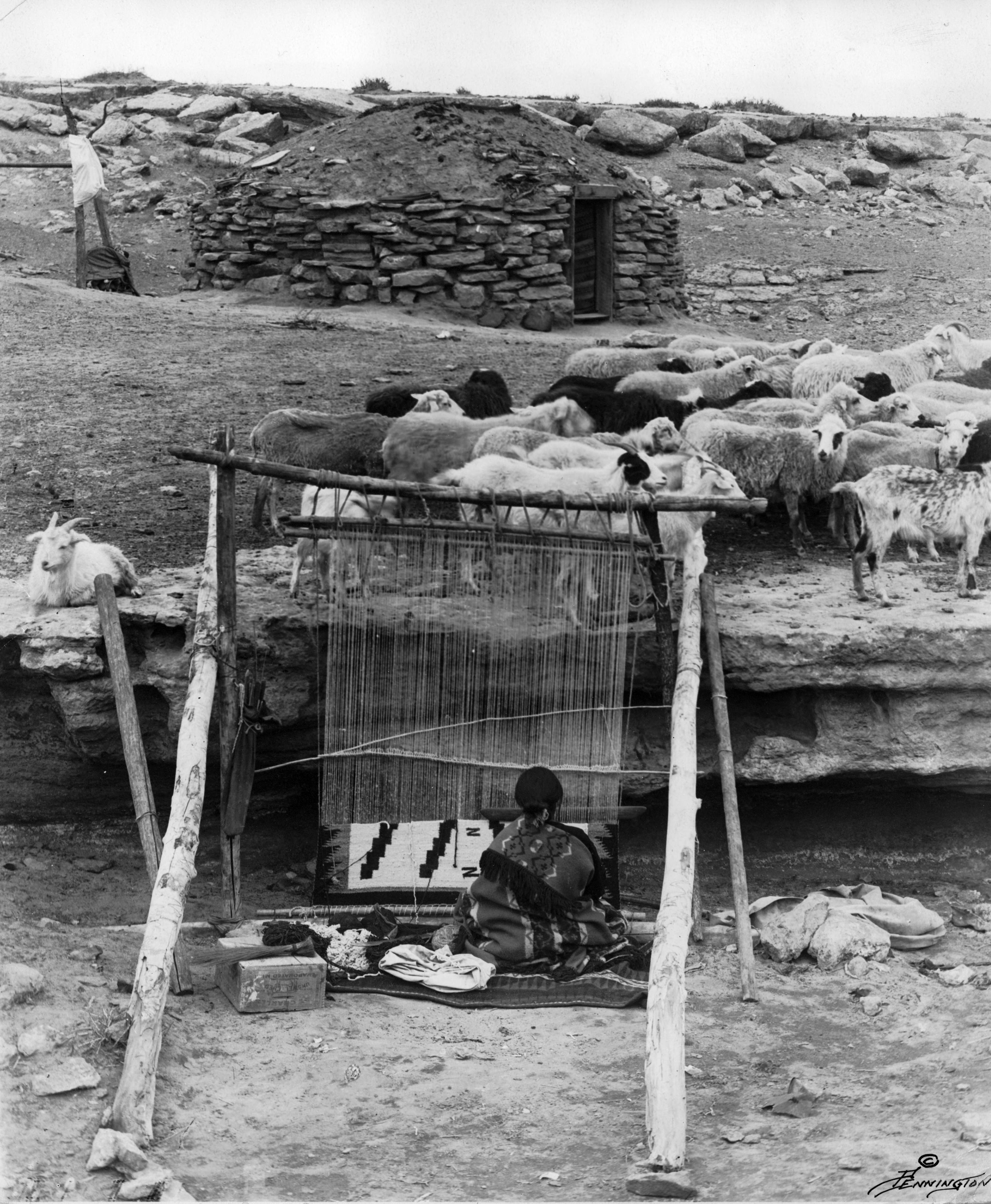 A Native American (Navajo) woman sits at a loom and weaves. A wooden crate that reads: "Charles Unsweetened Evaporated Milk" is near the woman. A herd of sheep walk on a ledge nearby. A stone and earth hogan is near the sheep.